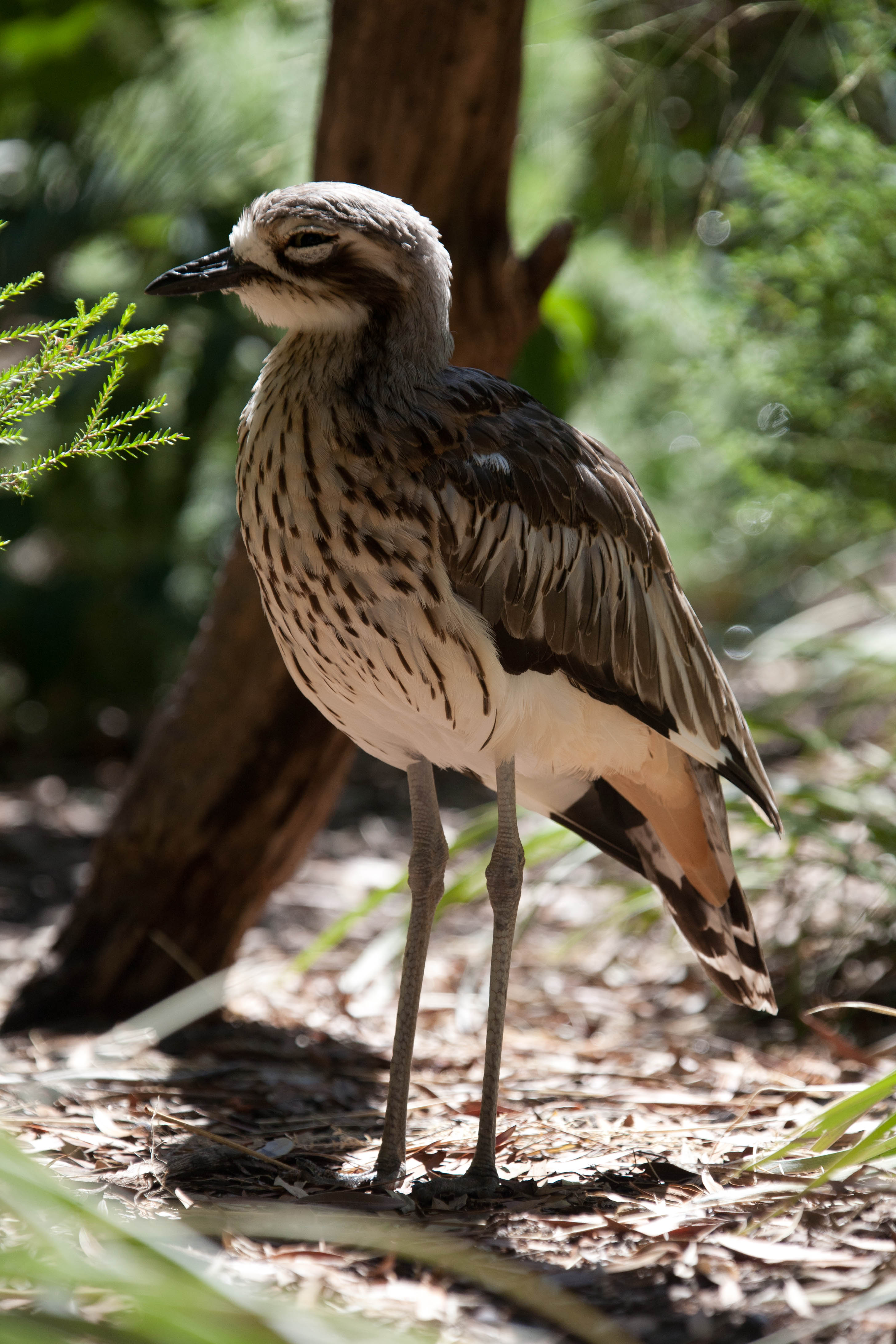 An adult Bush Stone-cerlew at Perth Zoo, Australia.